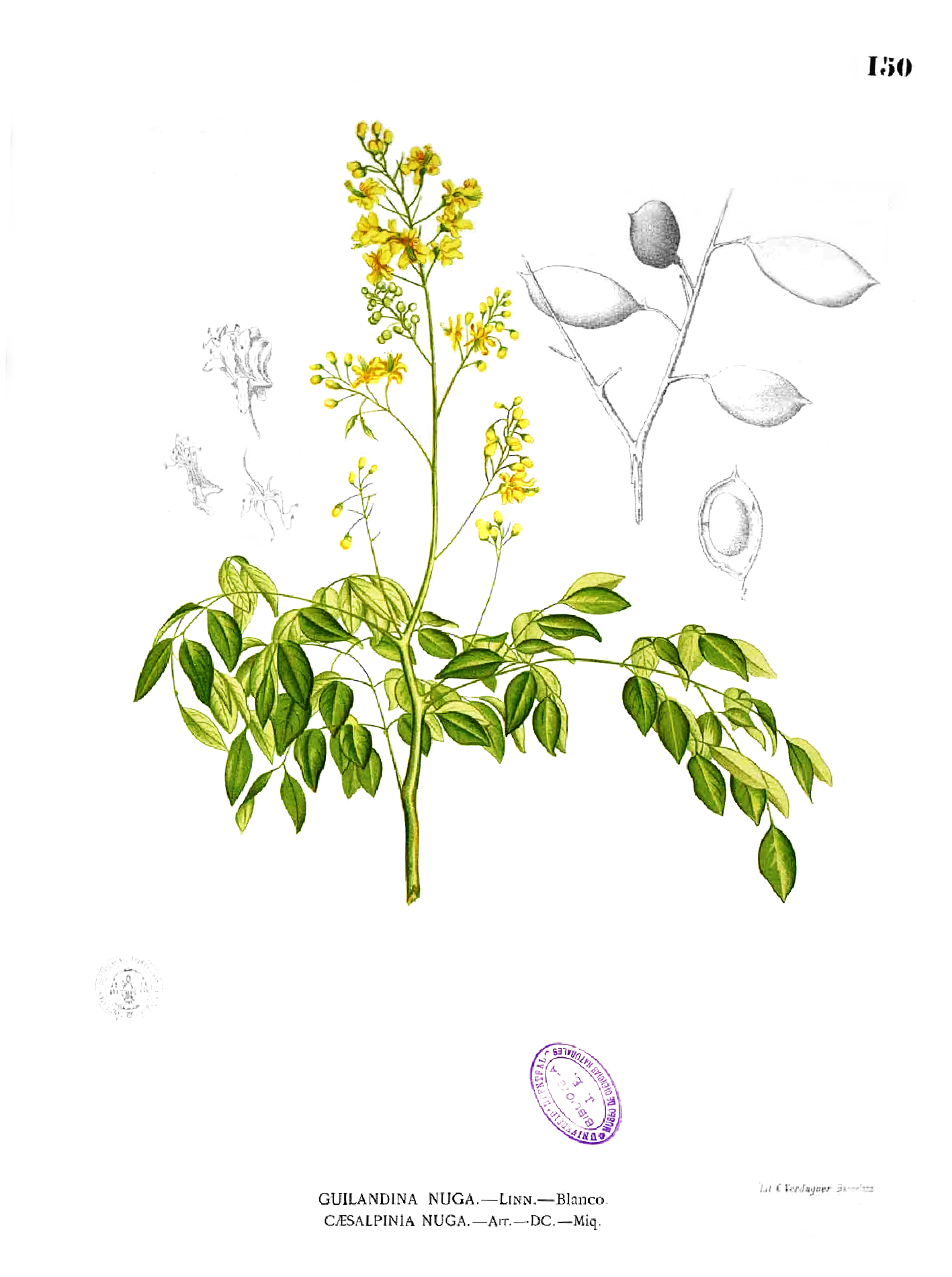 Plate from book